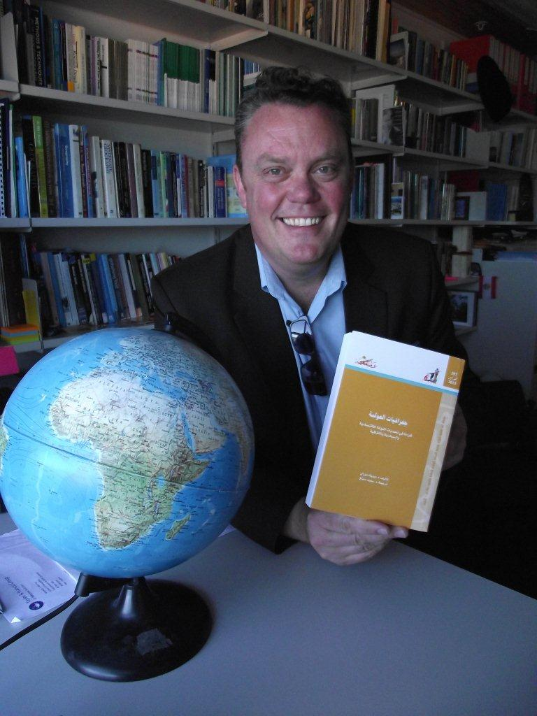 Prof Warwick Murray, PhD